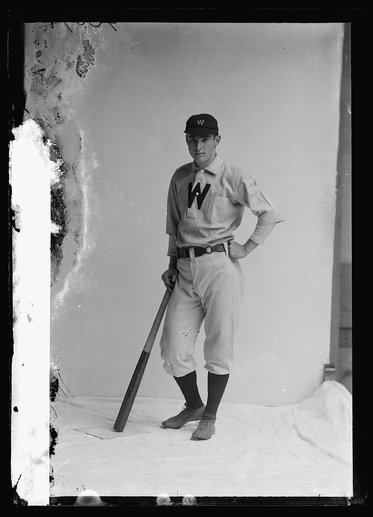 Gene DeMontreville in Washington Senators uniform photographed by C. M. Bell Studio in 1894